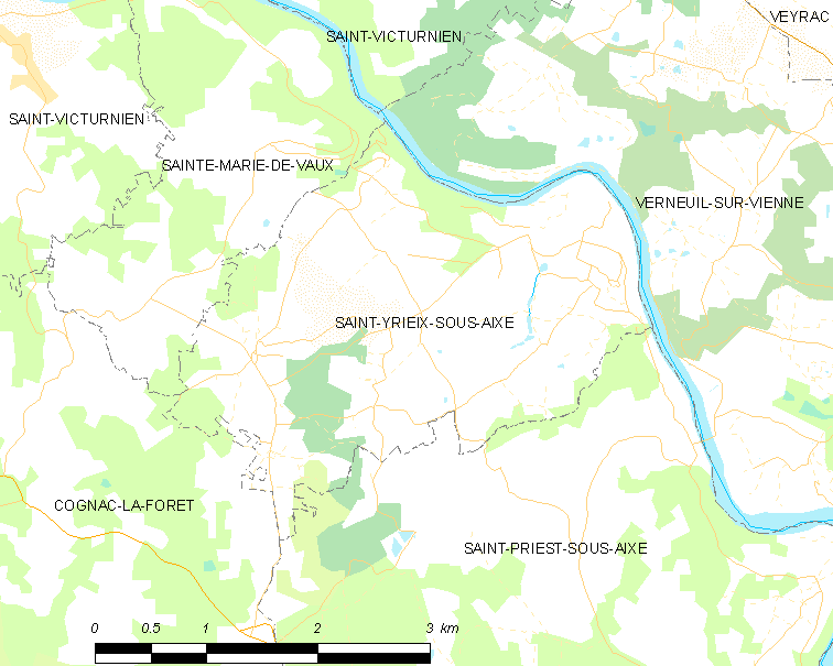 Map of French municipality Saint-Yrieix-sous-Aixe